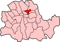 Locator map for the Metropolitan Borough of Shoreditch, within the old County of London.